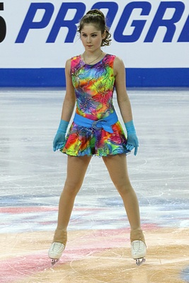 Yuliya Lipnitsкaya at the Sкate America 2015